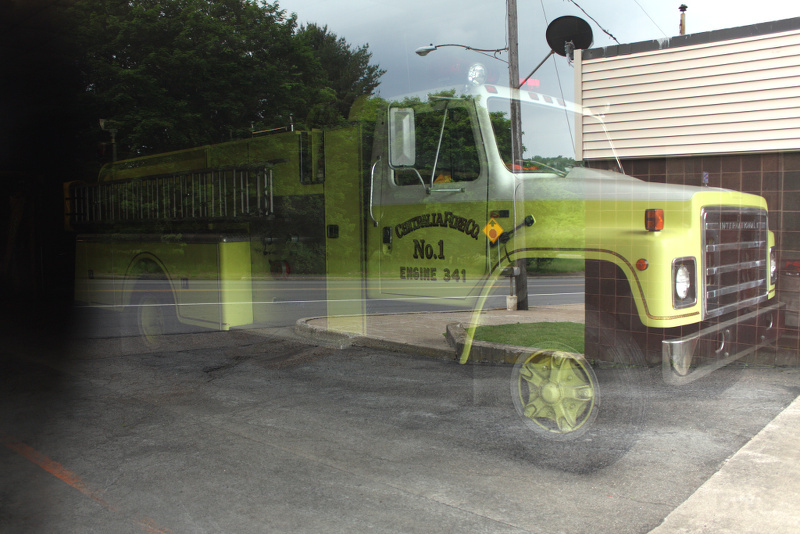 Centralia, Pennsylvania, USA, Fire Company, engine 341 through the garage door of the municipal building. Everything except the fire engine is a reflection off the glass of the garage door, which makes the fire engine appear ghostly.